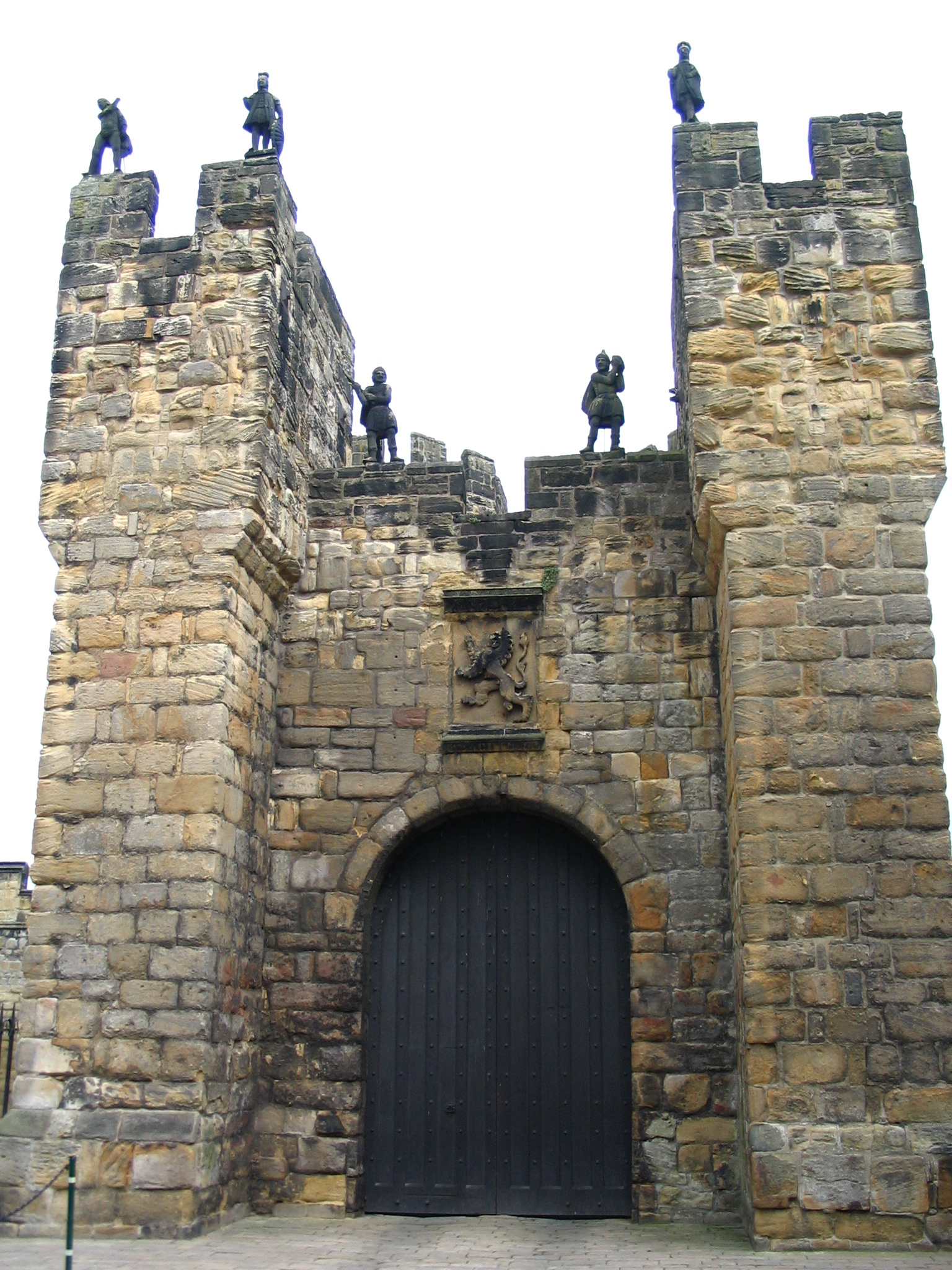 Picture taken by me.